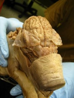 Fetal pig head dissection showing brain